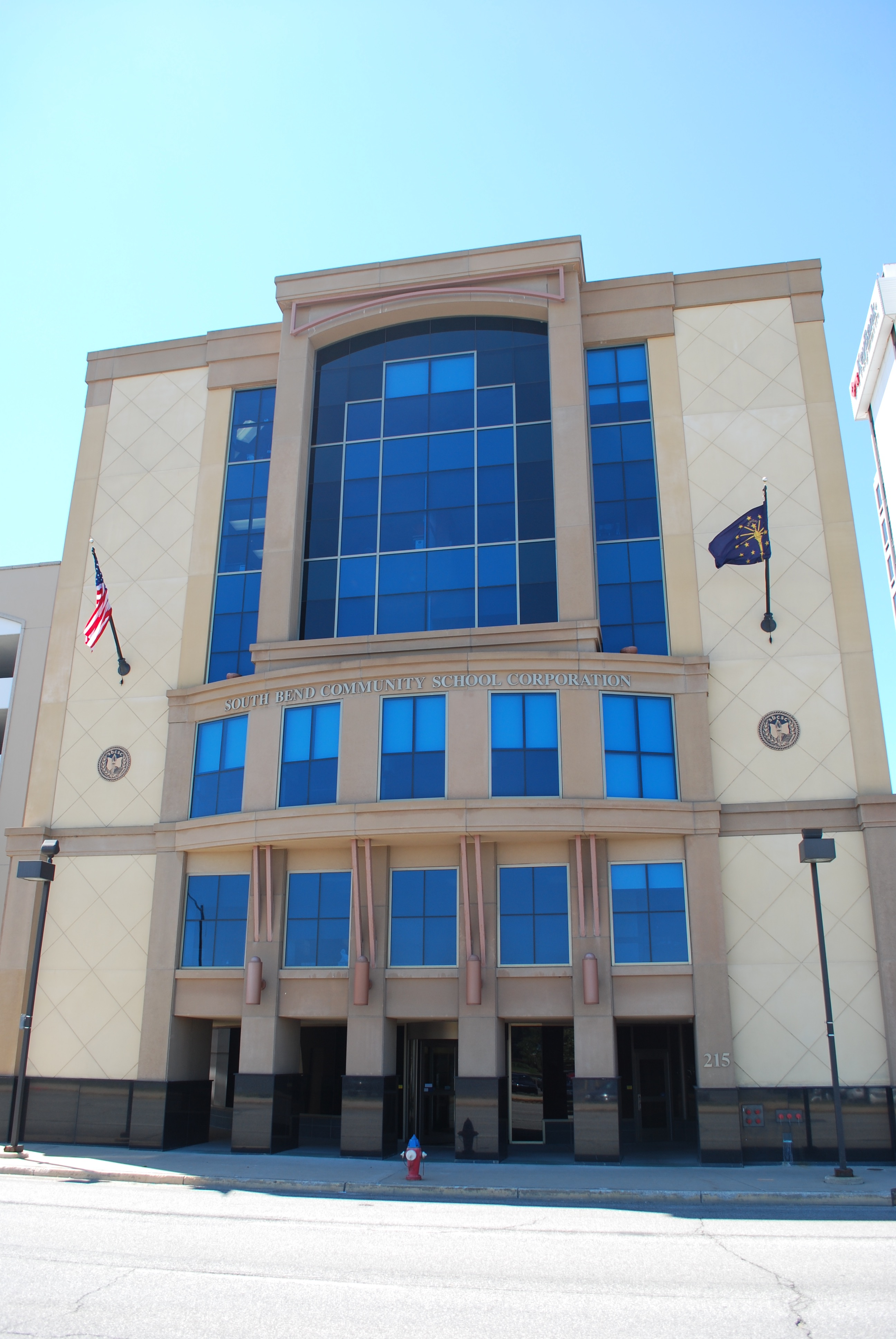 The main office building of the South Bend Community School Corporation (SBCSC). This photo was taken on July 31, 2015.